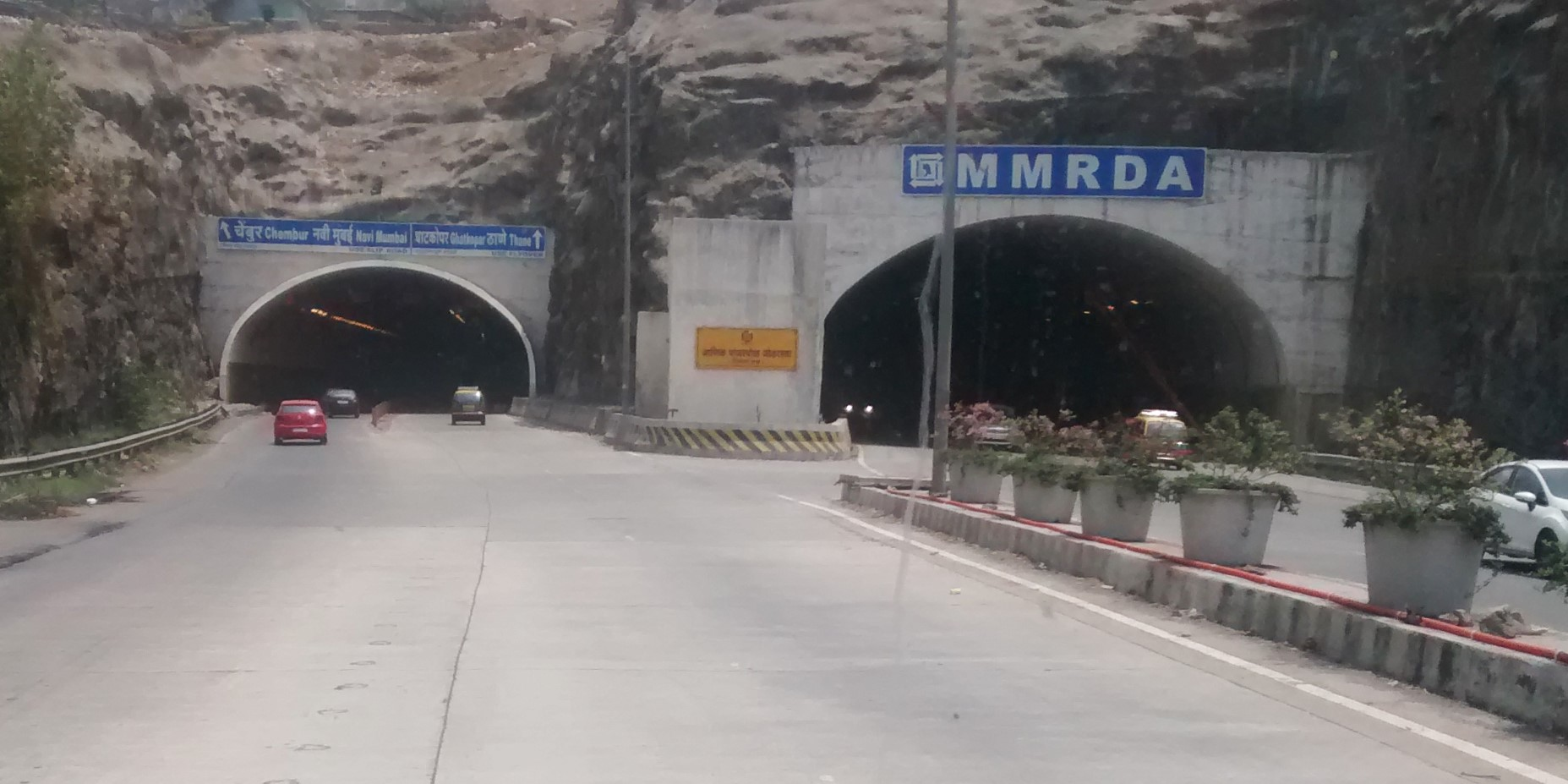 Tunnel on the Easter Freeway.